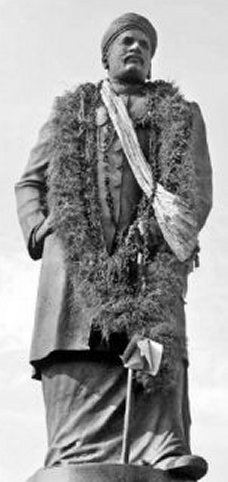 Ayyankali Statue in Thiruvananthapuram City Website for SreeAyyankali